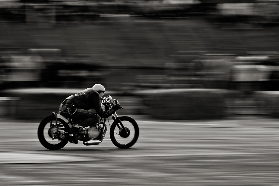 Fokus on a motorbike in Finsterwalde/Brandenburg Germany